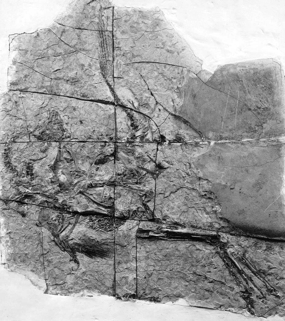 Photograph of the holotype specimen of Caudipteryx zoui (NGMC 97−4−A) described by Ji et al. (1998).